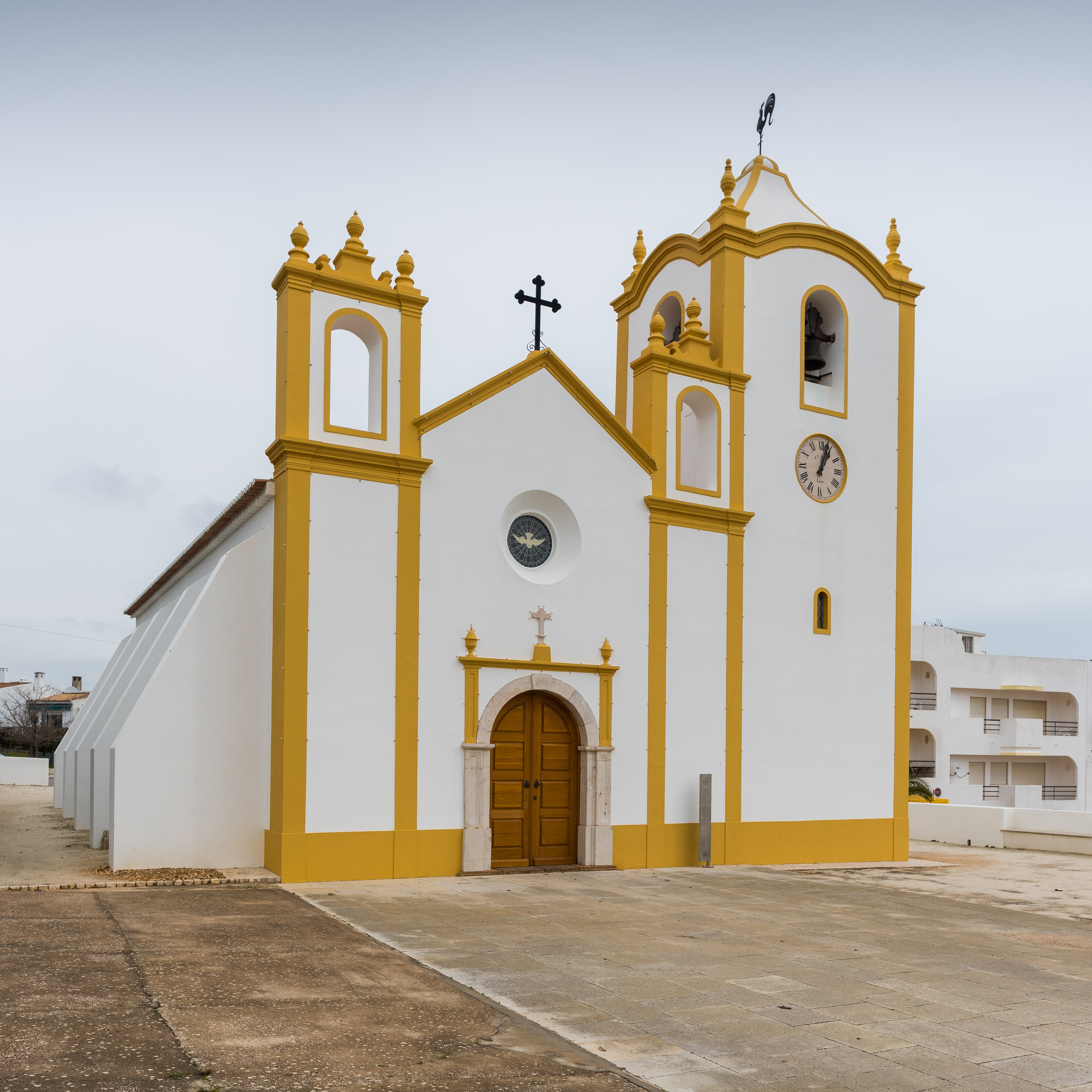 Church of Nossa Senhora da Luz, Praia da Luz, Algarve, Portugal, February 2015